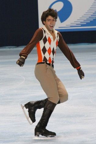 Alban PREAUBERT (FRA) at the 2009 Trophee Eric Bompard.